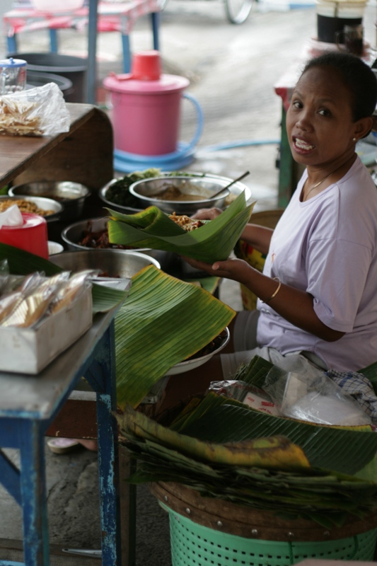 Nasi Pecel is the local dish. A must-have if you visit this place. Steamed Rice and veggies, cuts of meat over warm peanut sauce. Served on banana leaves.